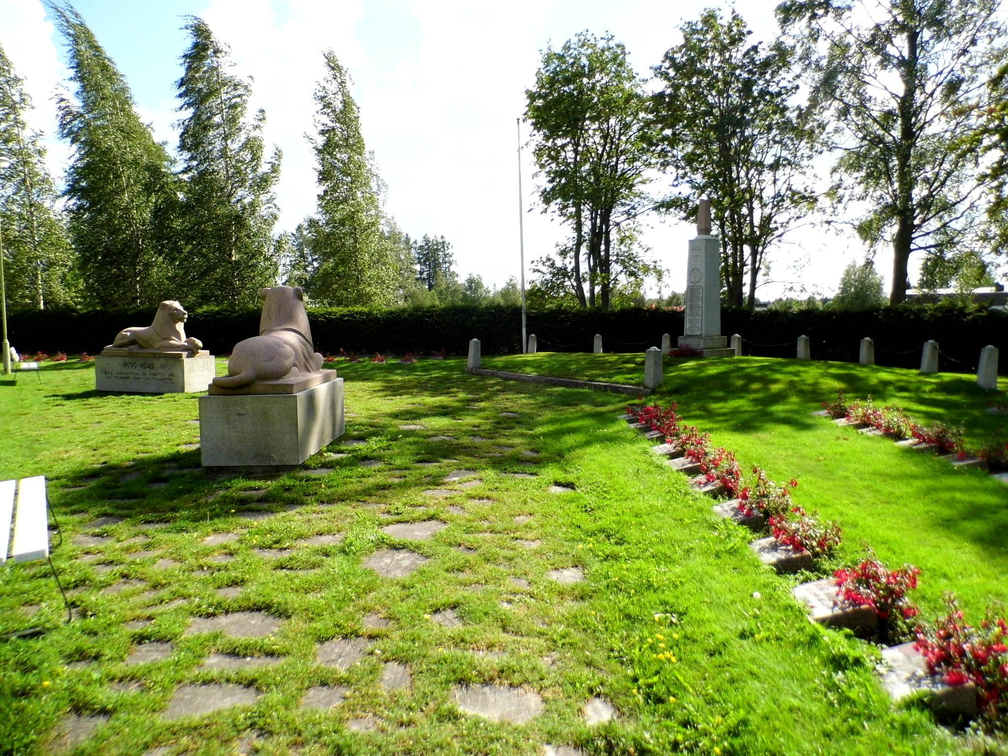 Military cemetary at church in Soini, Finland